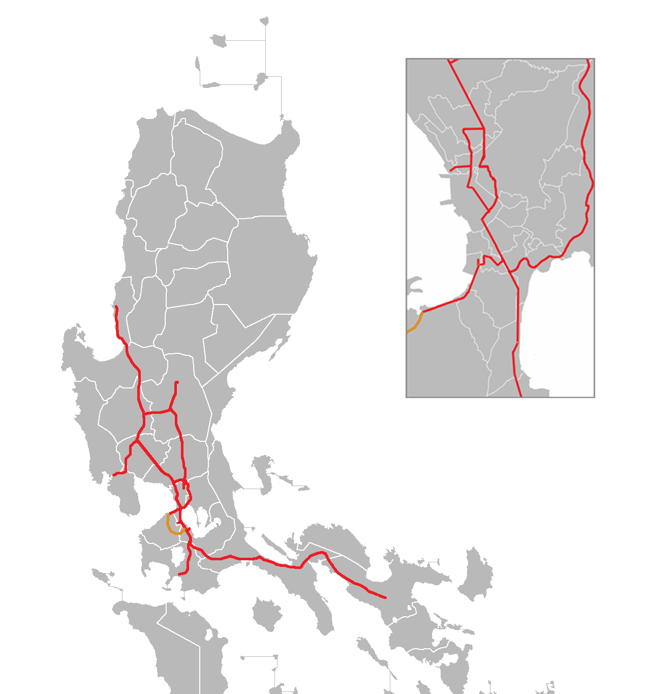 A map of CALAEX (orange)